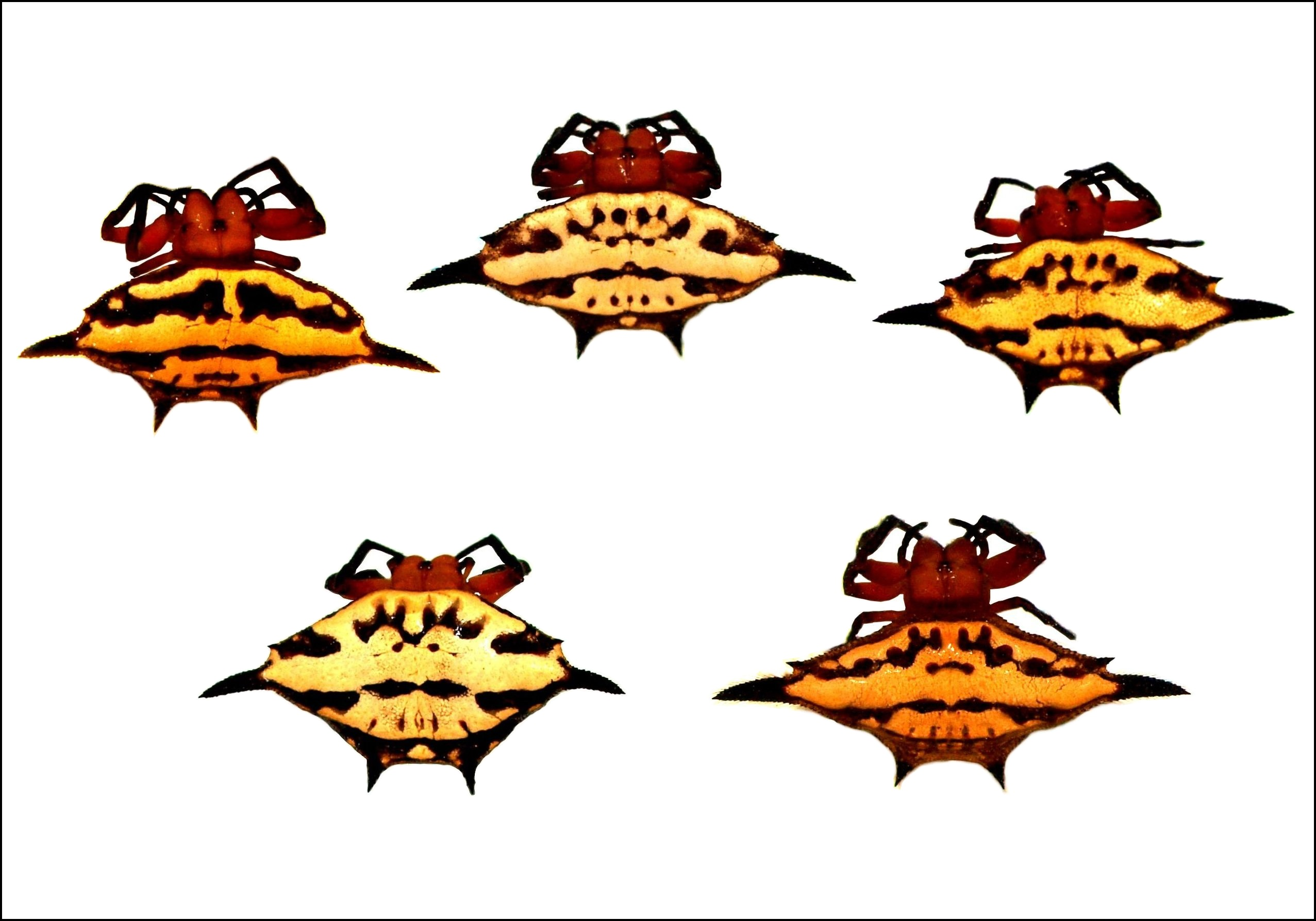 Diversity of ornamentation of Gasteracantha rhomboidea in dorsal view. The species is native to Mauritius.